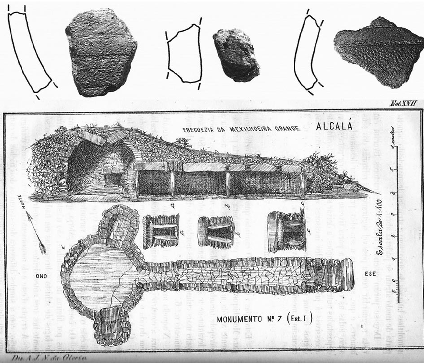 Planta-do-tholos-de-Alcalar-7 from VEIGA, S. P. E. da (1889) Antiguidades Monumentaes do Algarve, vol. III, Imprensa Nacional, Lisboa